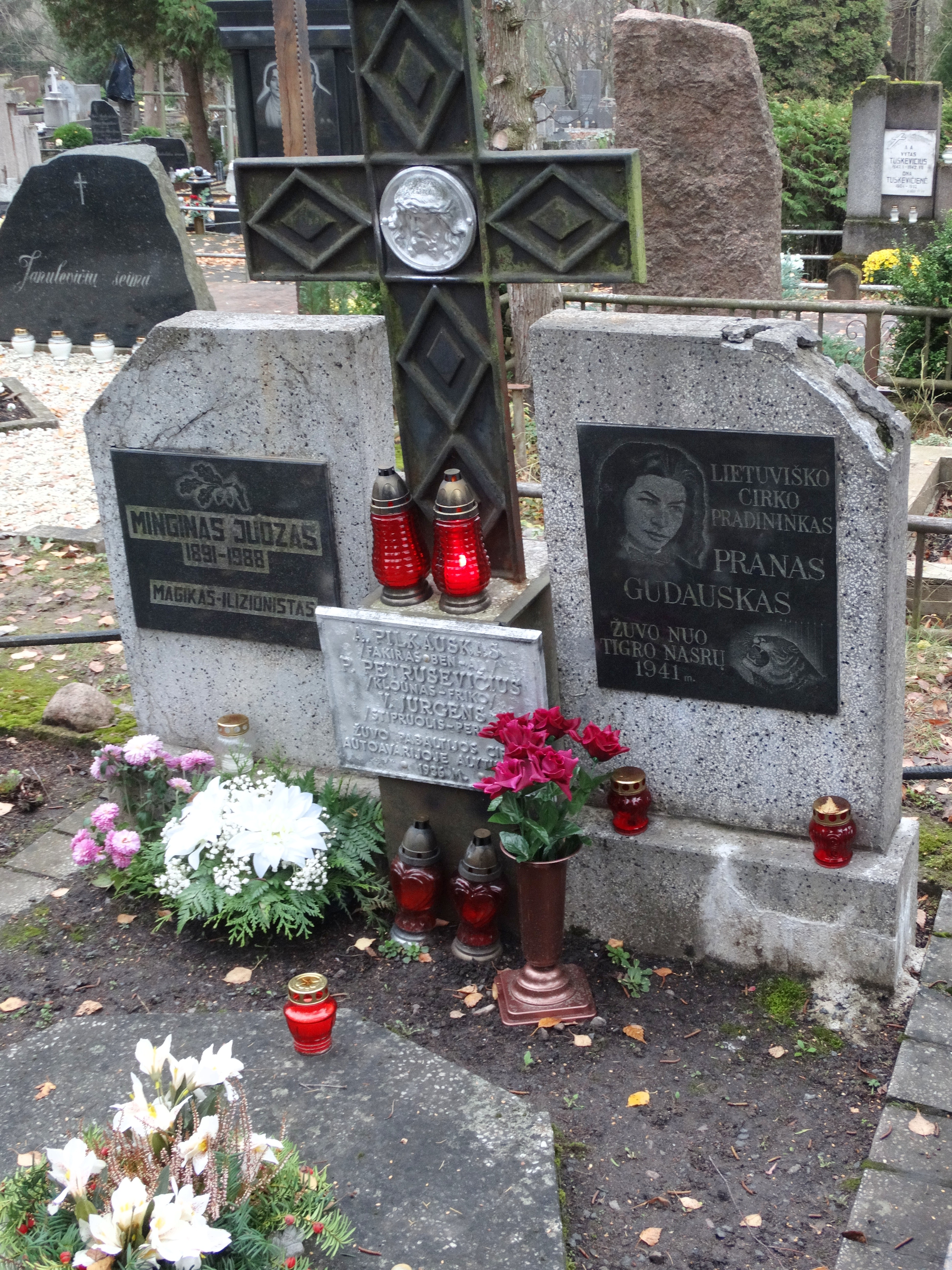 Tomb of Pranas Gudauskas, circus artist, Eiguliai cemetery, Lithuania